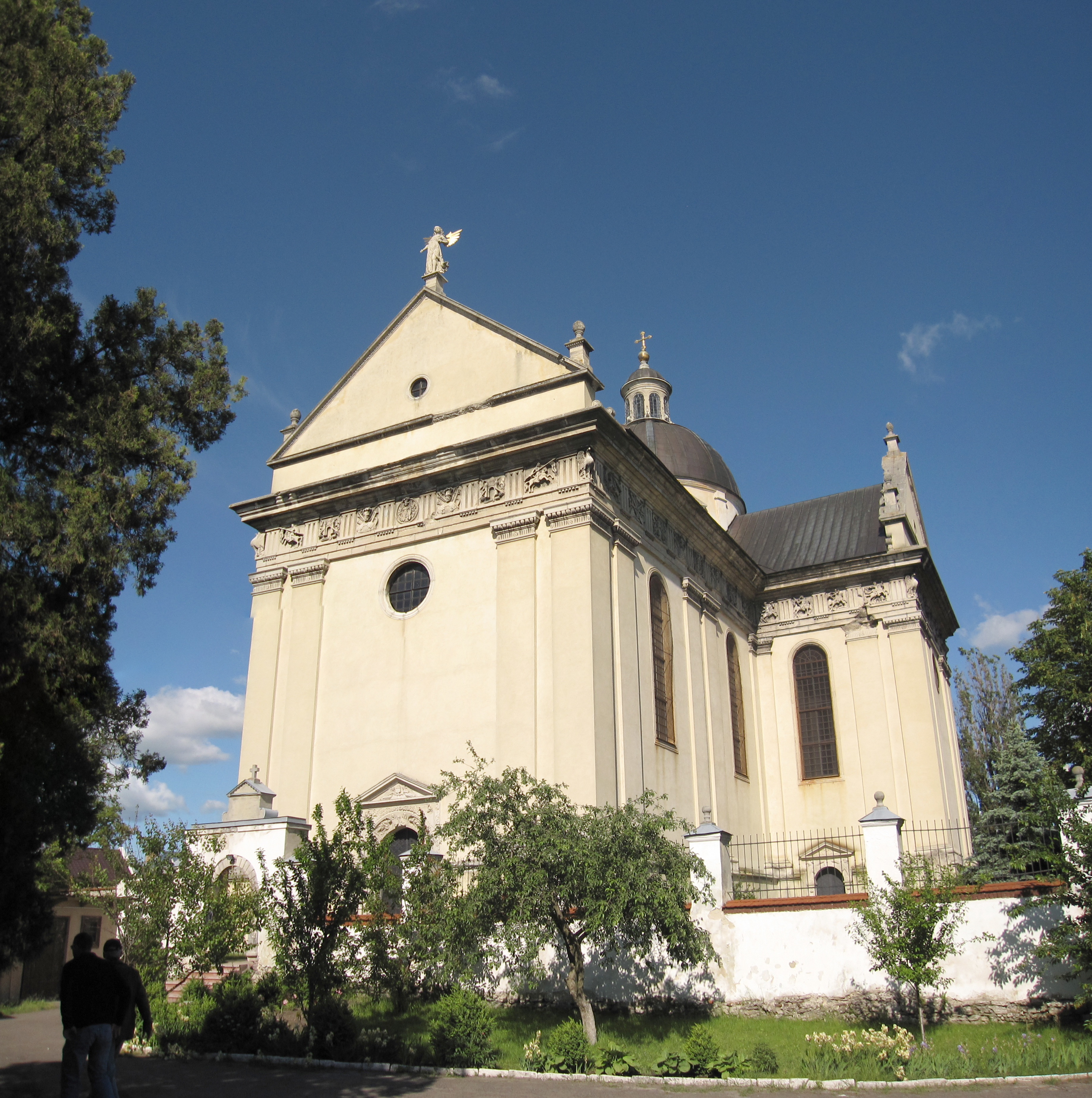 St. Lawrence's Church, Zhovkva